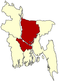 Locator map of Khulna Dhaka Dvision in Bangladesh